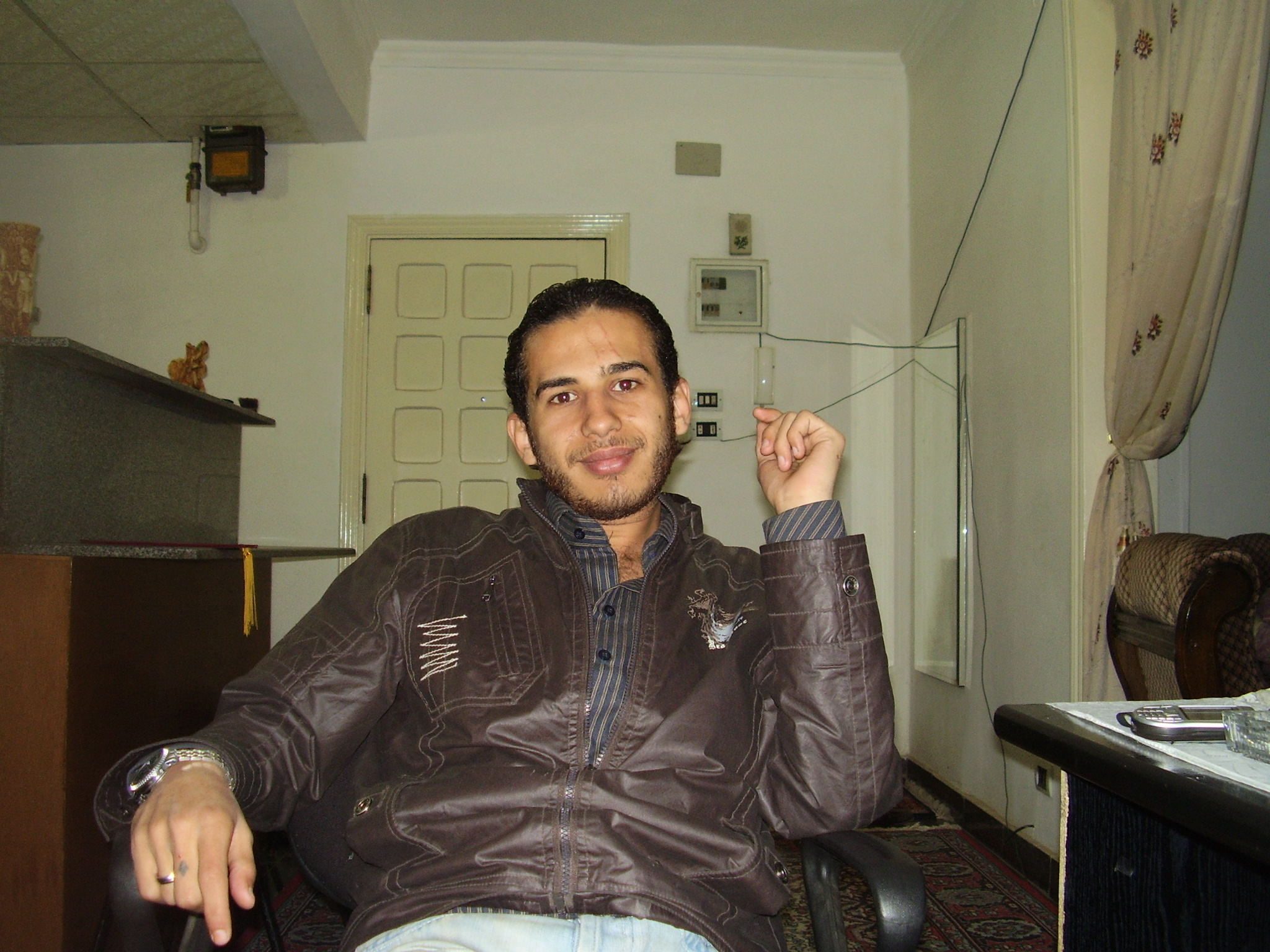 ALBER SABER AYAD ZAKY